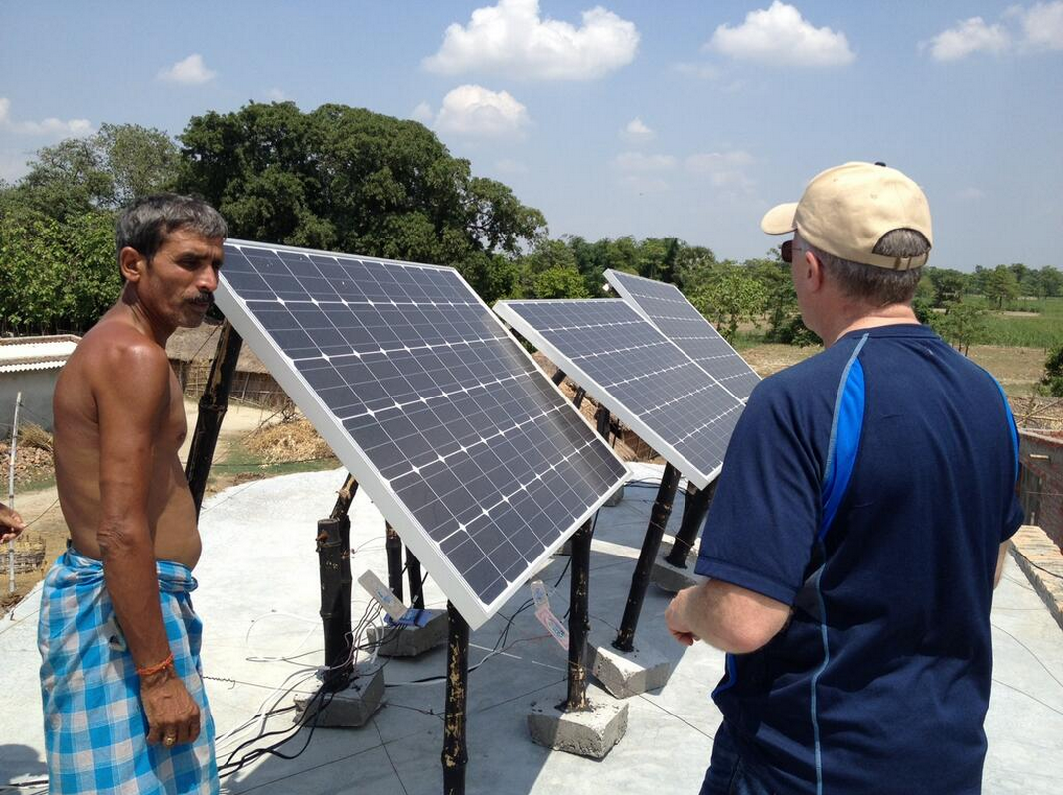 Chairman Brad Mattson works with company Husk Power Systems to install solar panels and bring electricity to rural areas in India that previously did not have access to power.